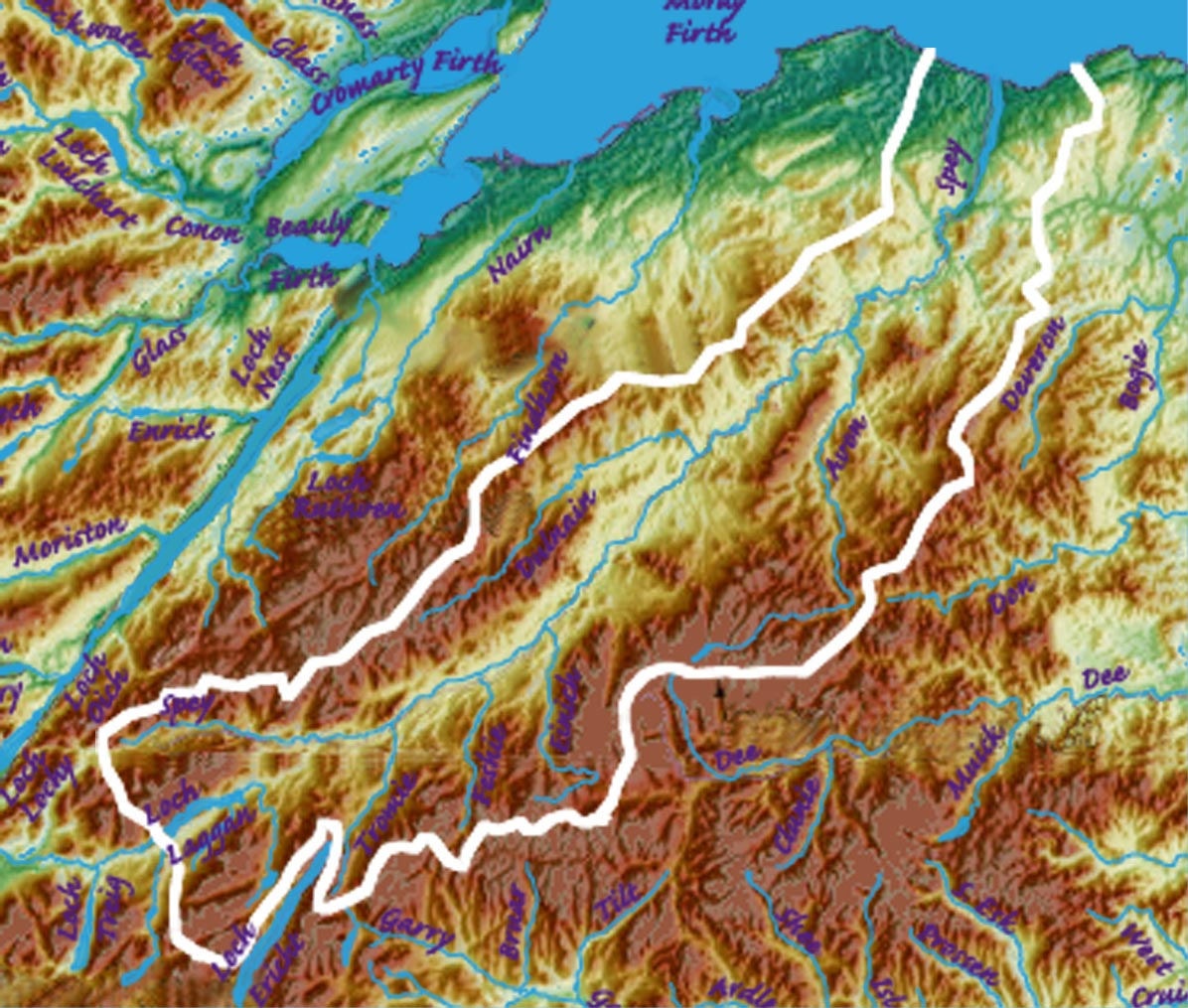 River Spey catchment (topographic)